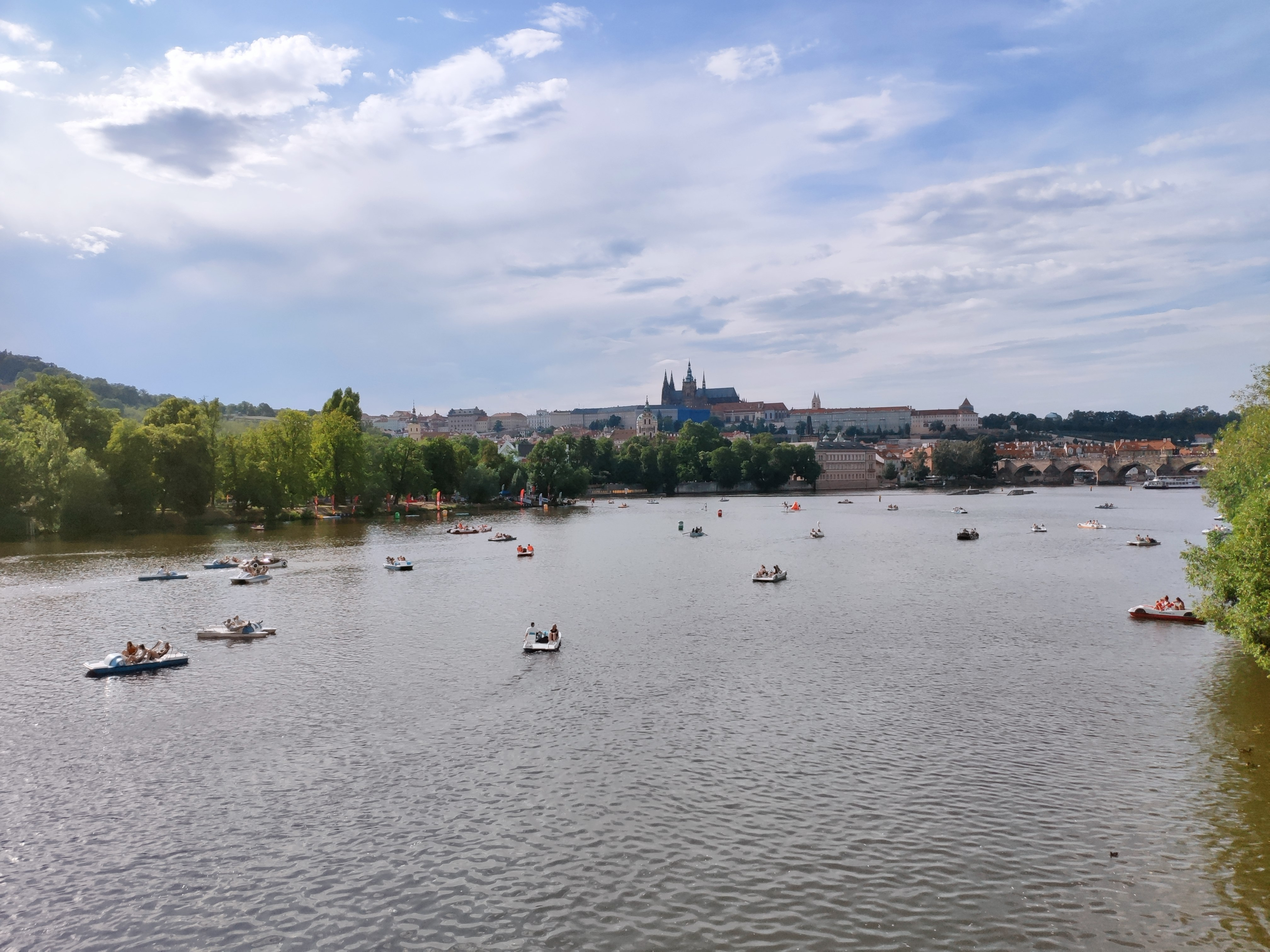 Pedaloes on the Vltava in Prague